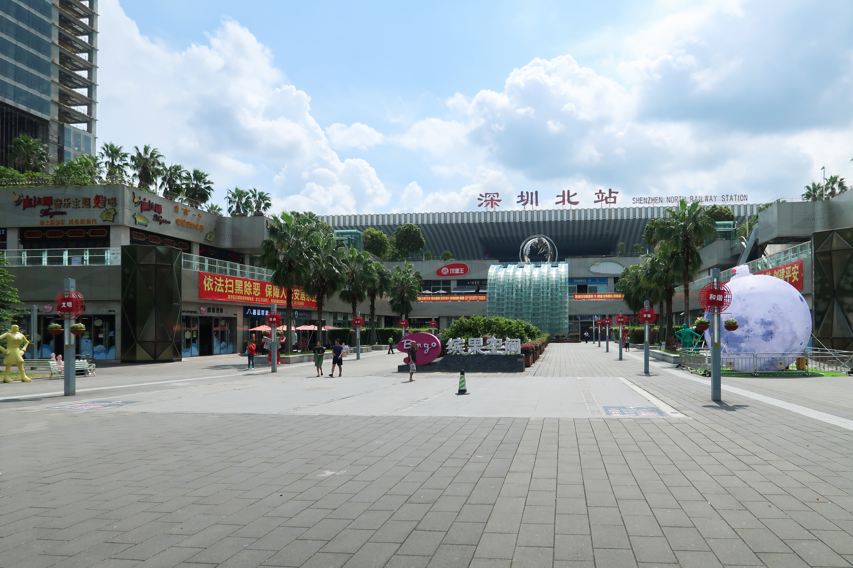 Shenzhen North Railway Station